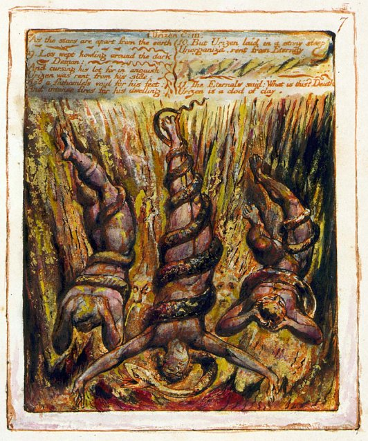 Plate from The Book of Urizen, copy G, in the collection of the Library of Congress.